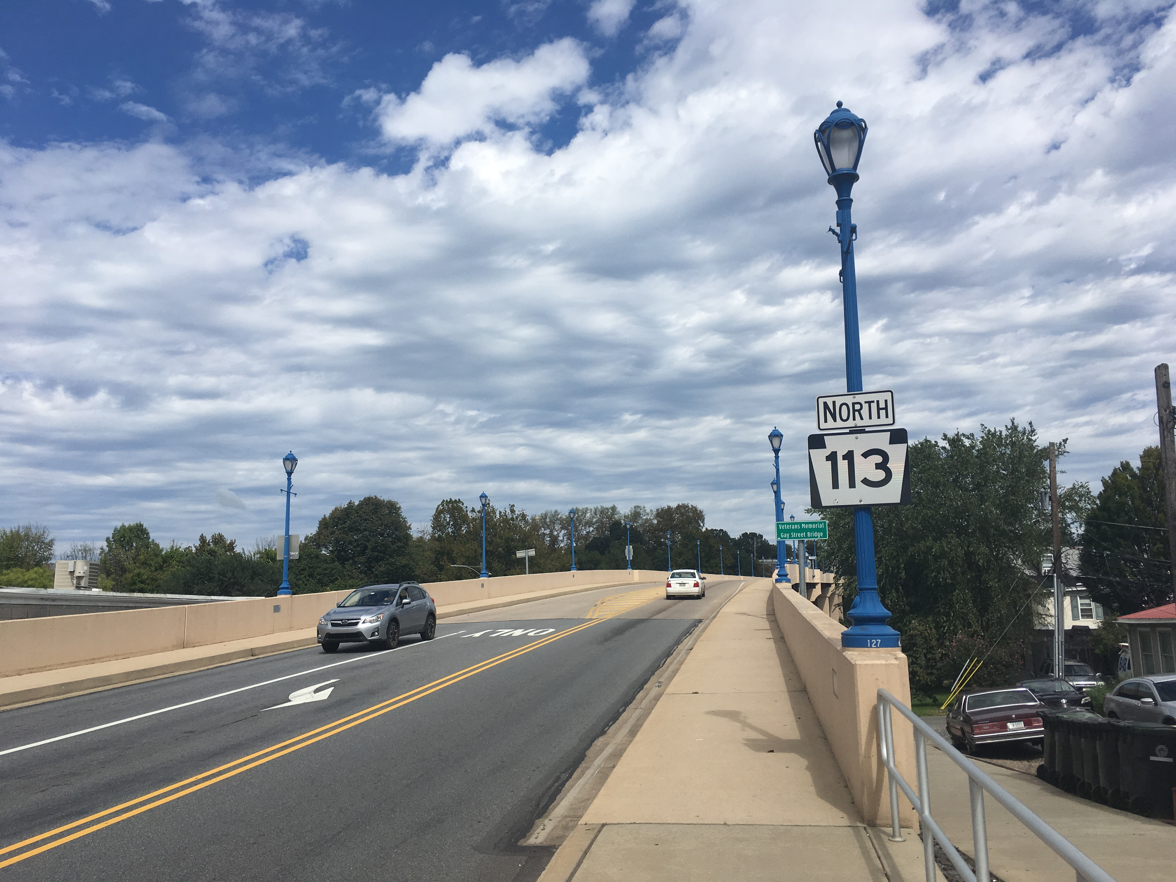 Northbound Pennsylvania Route 113 across the French Creek on the Gay Street Bridge in Phoenixville, Pennsylvania